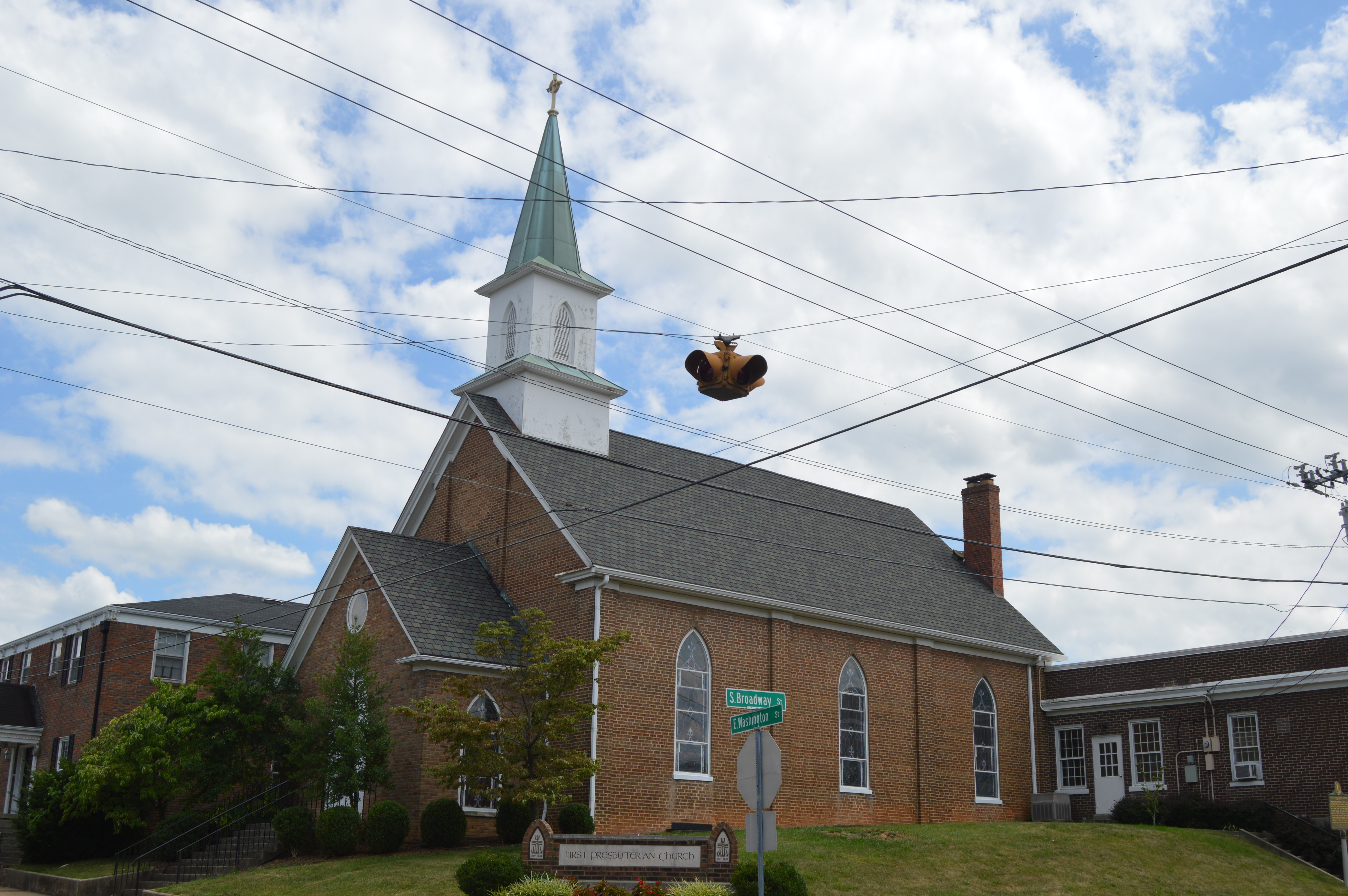 Front of the First Presbyterian Church, located at 200 E. Washington Street in Glasgow, Kentucky, United States. Built in 1853, it is listed on the National Register of Historic Places.